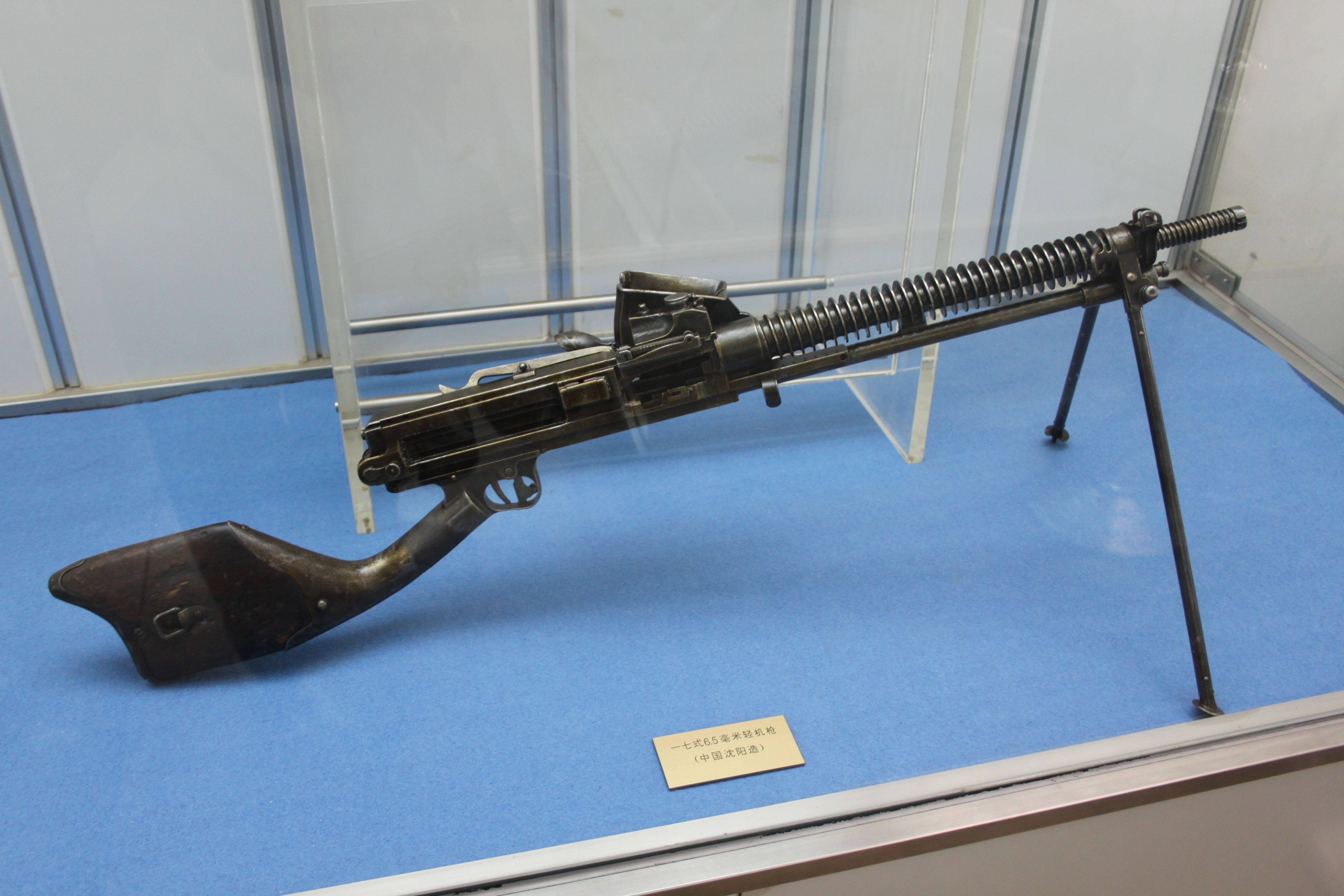 Military Museum: Modern Weapons, Small Arms Gallery. Complete indexed photo collection at .